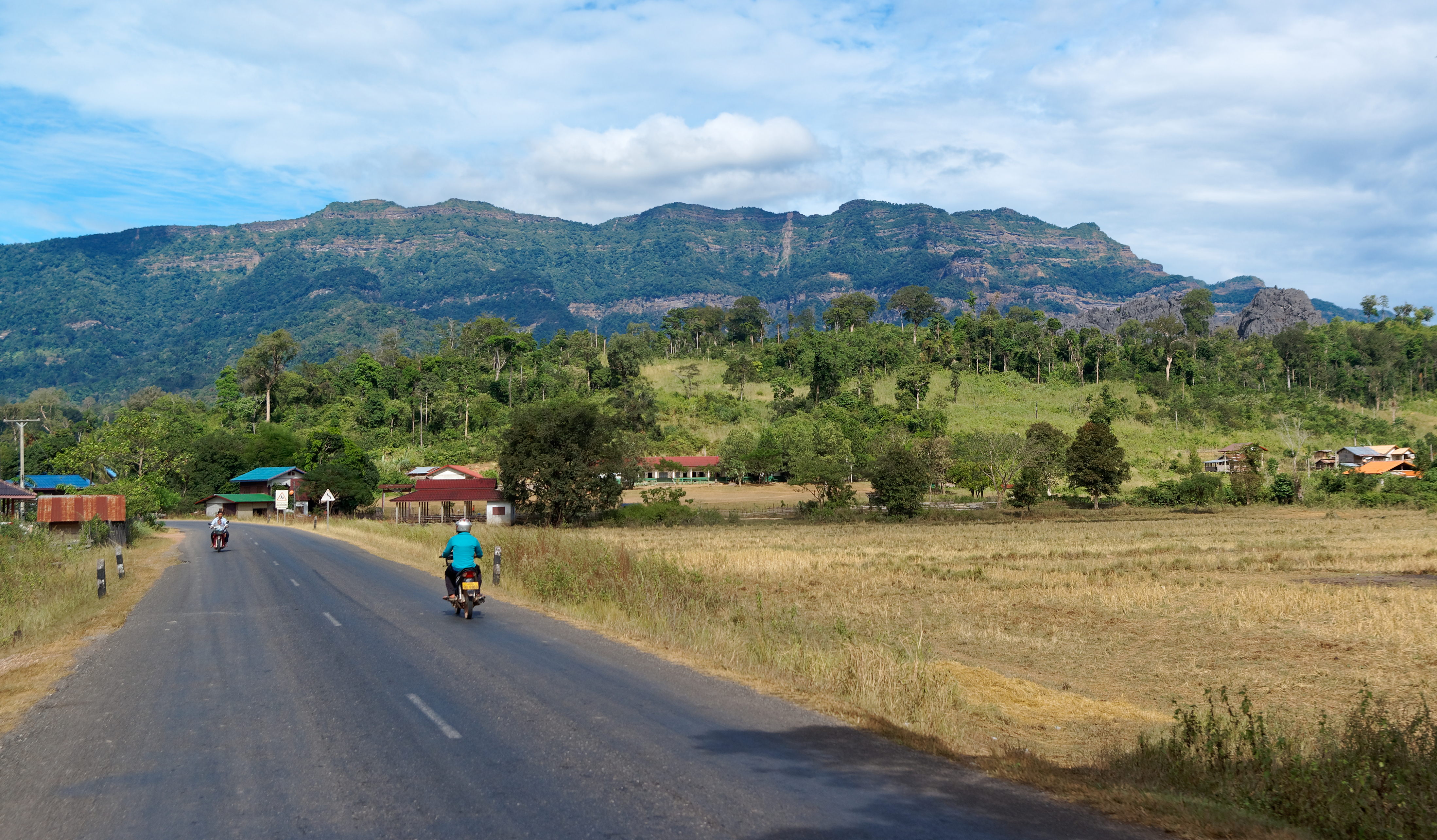 Route 8 in Laos